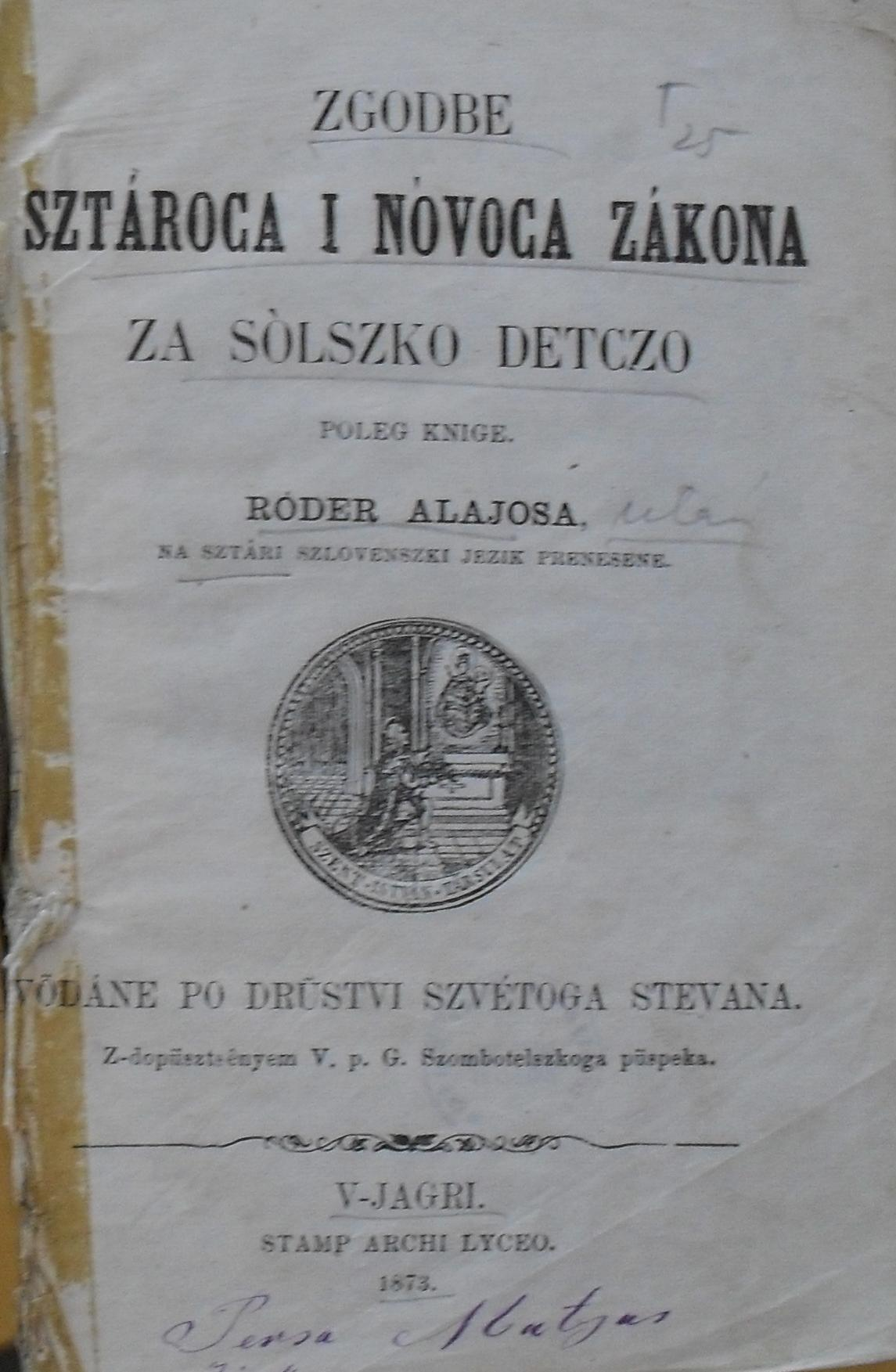 Zgodbe Sztároga i Nóvoga testamentoma (Historys of the Old and New Testament) the work of István Szelmár in prekmurian language (prekmurščina) from 1873